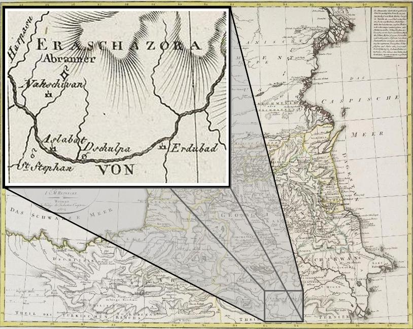 Charte der Leander am Caucasus nach dem besten vorhanden. Published in Vienna, 1803